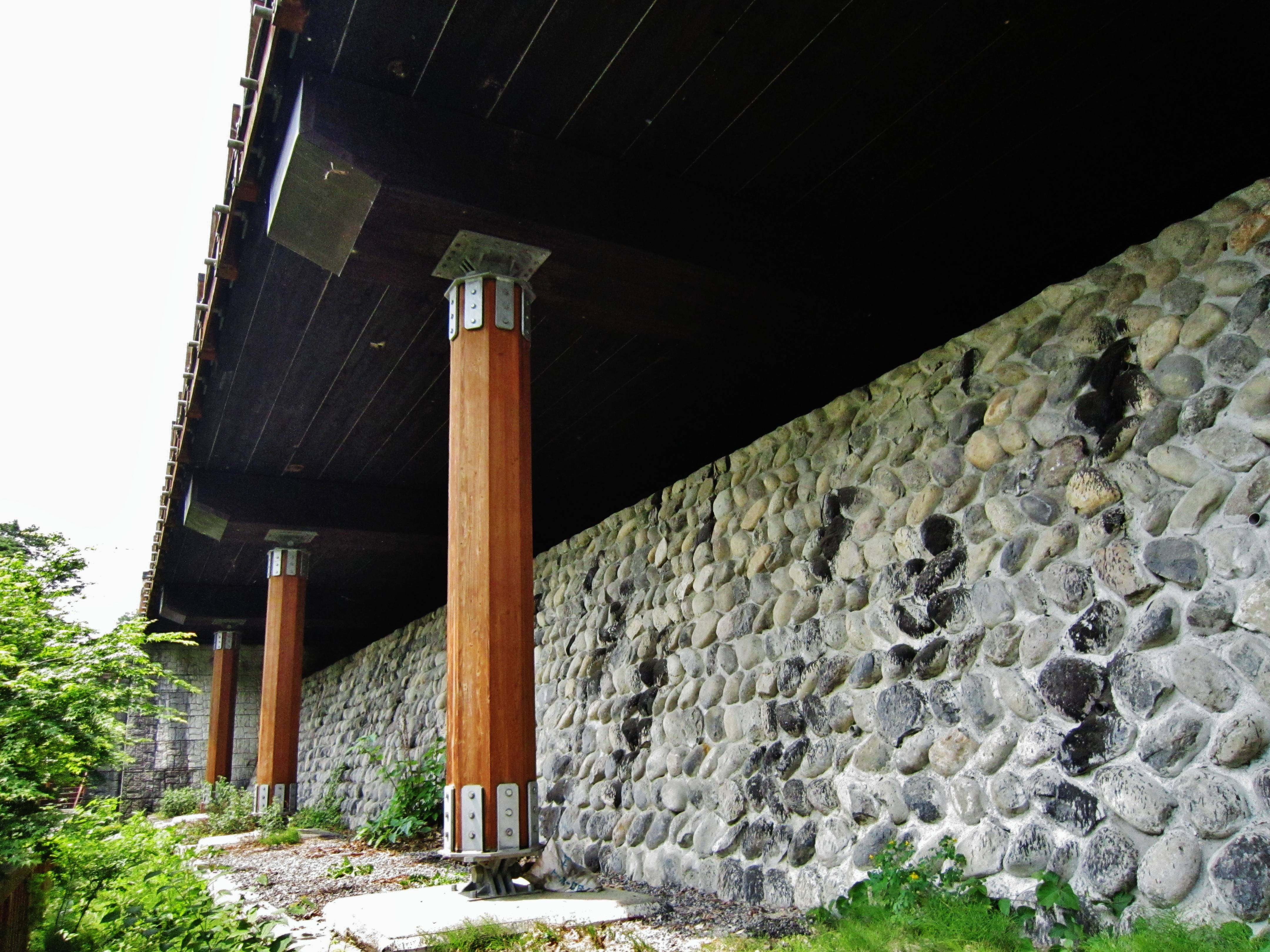 Ki no kakehashi.